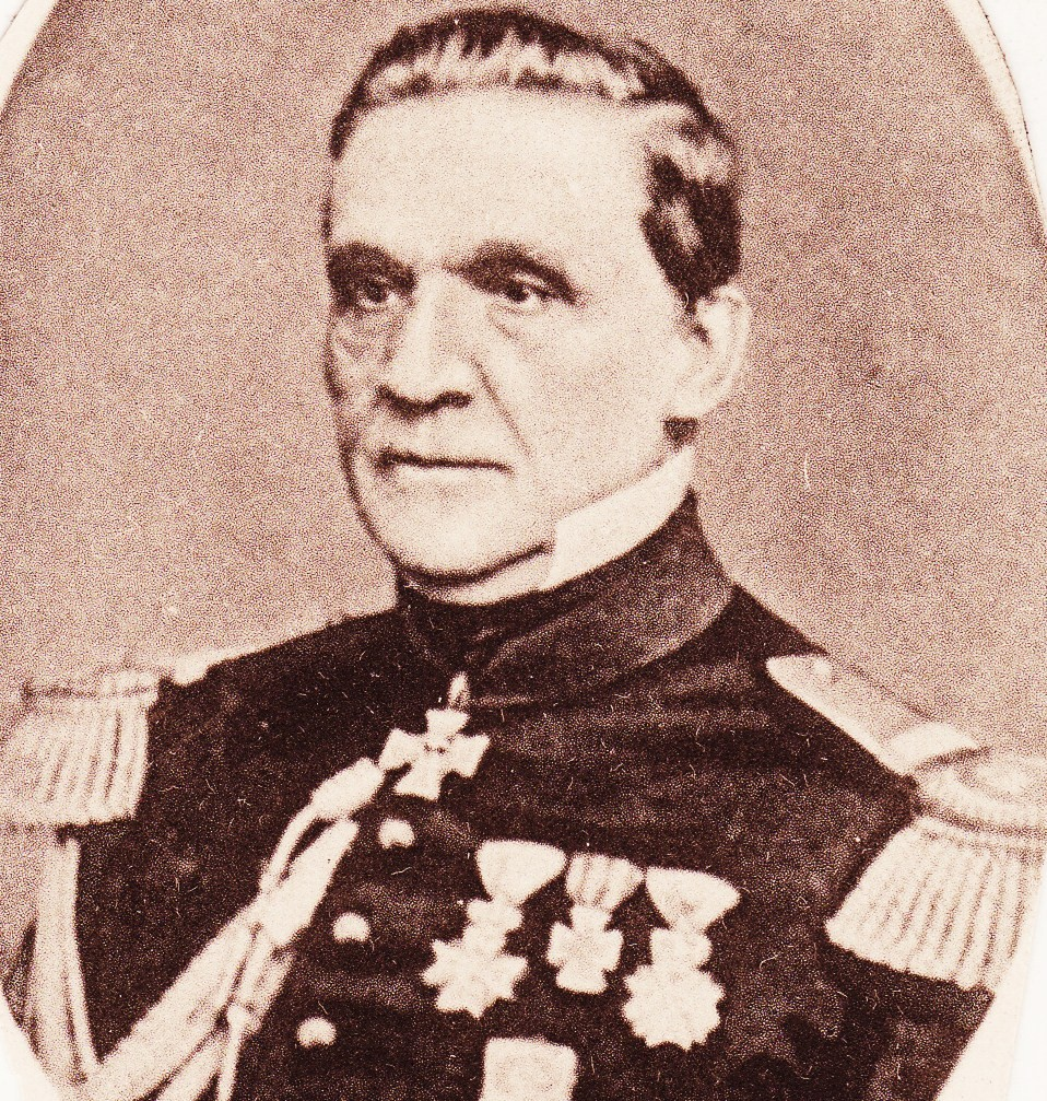 Kolonel J.A. Waleson